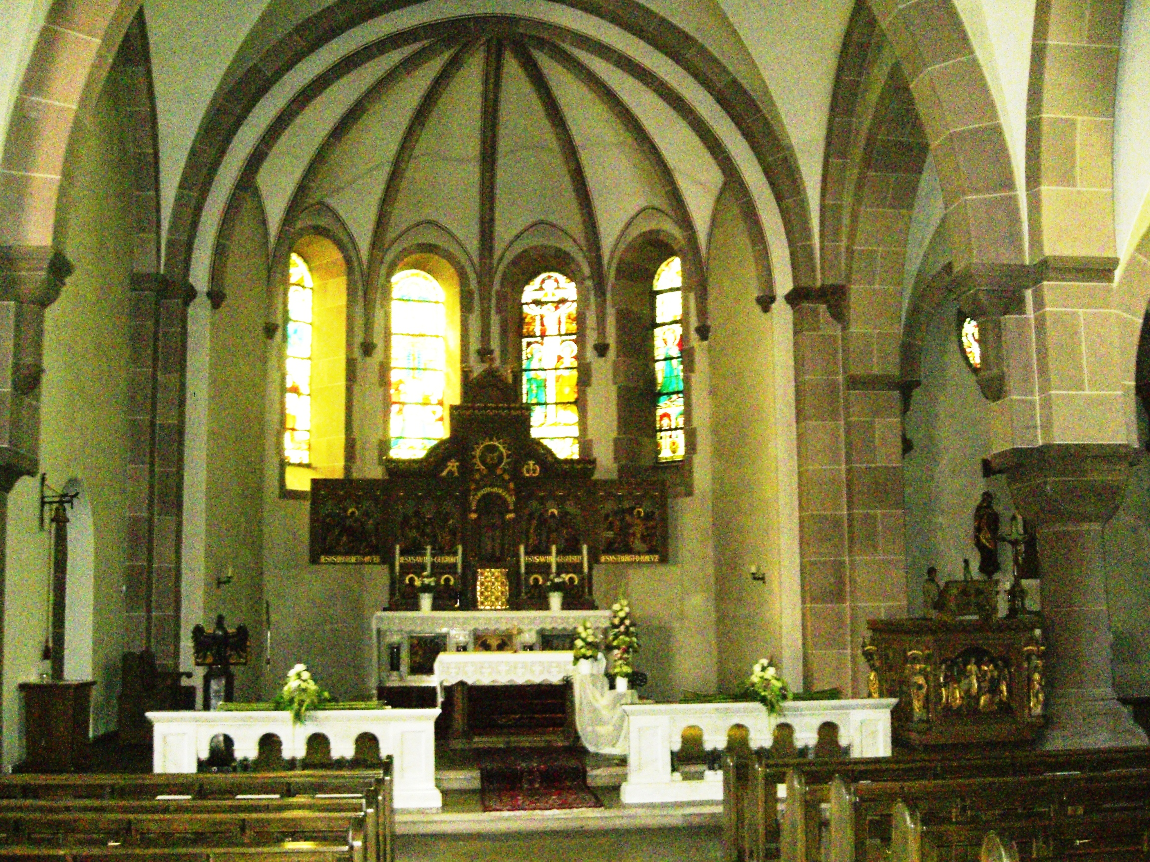 Hochaltar von St. Jodokus in Saalhausen